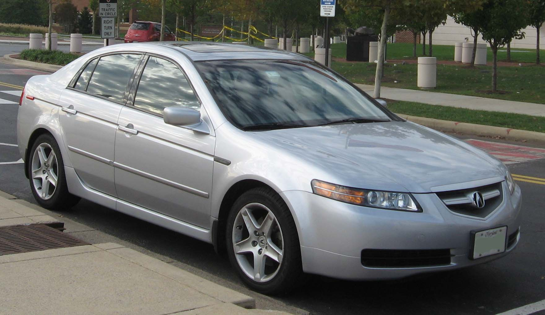 2004-2006 Acura TL photographed in College Park, Maryland, USA.